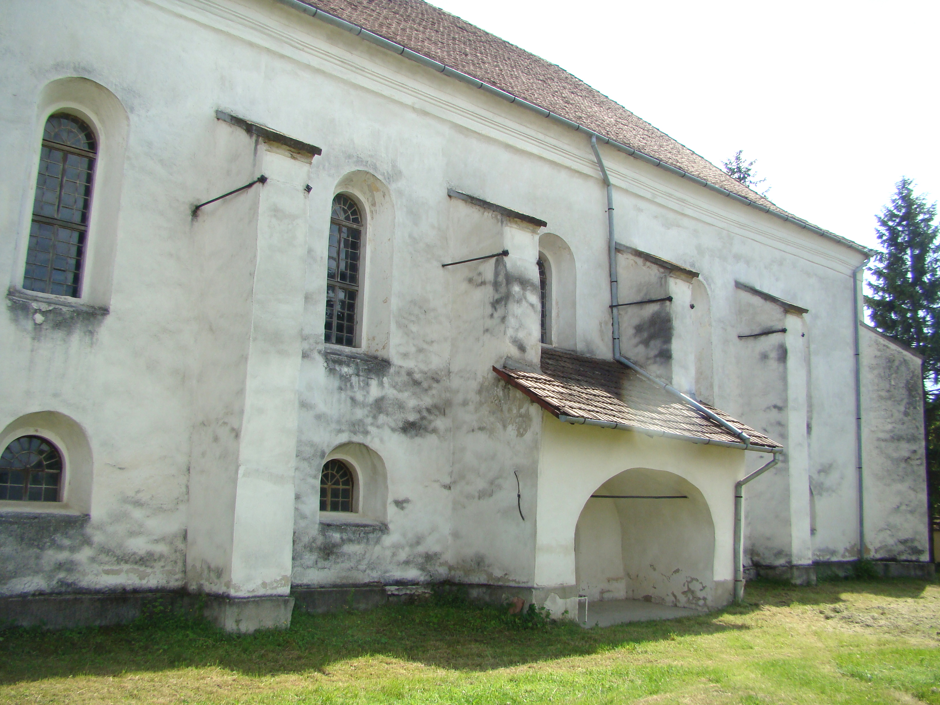 Lutheran church in Batoș, Mureş county, Romania